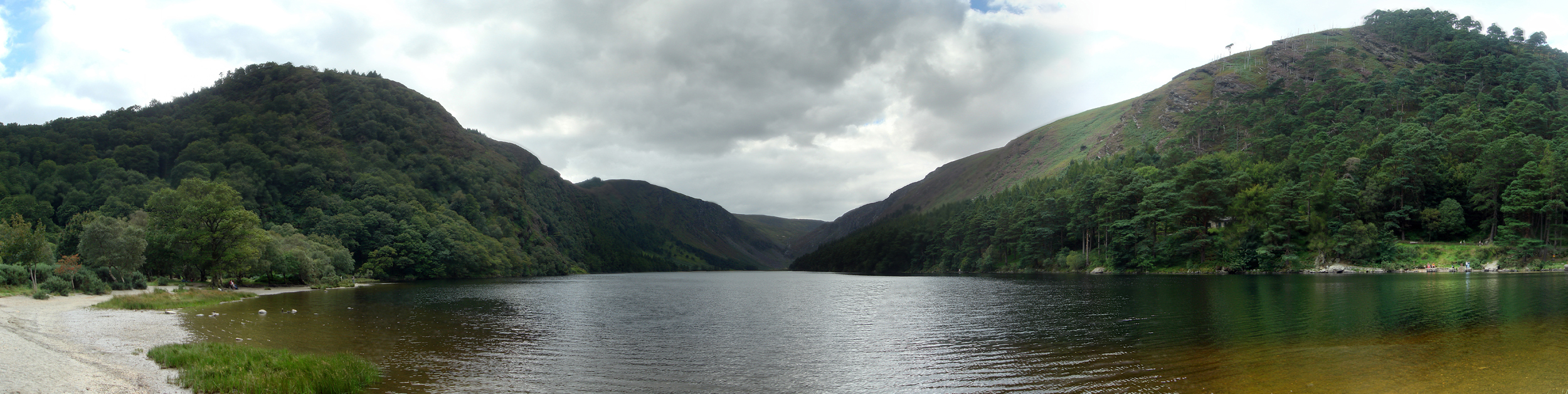 The Upper Lake at Glendalough, County Wicklow.